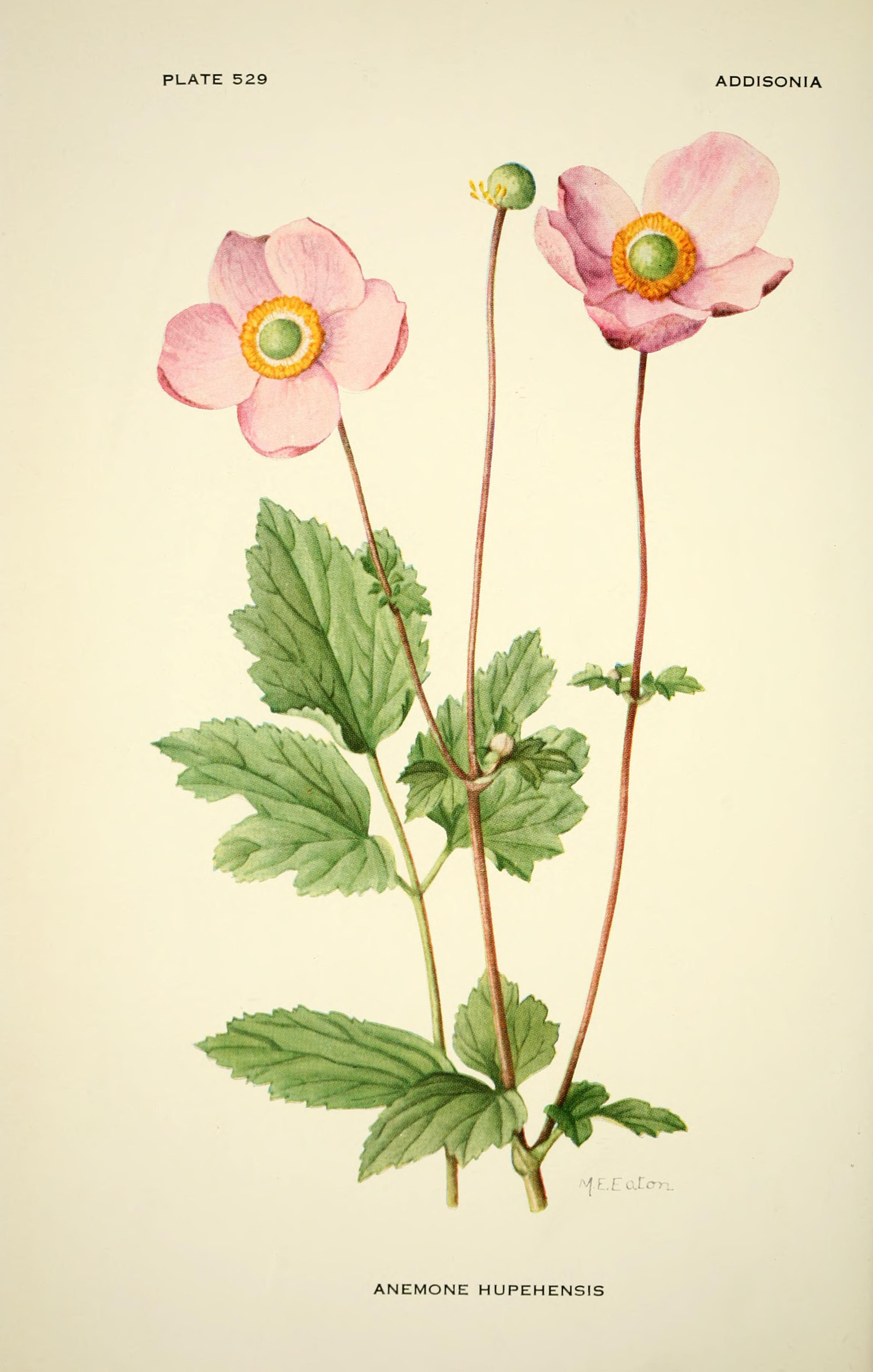 Title: Addisonia : colored illustrations and popular descriptions of plants Year: 1916-(1964) (1910s) Authors: New York Botanical Garden Subjects: Plants; Plants -- United States; Plants Publisher: New York : New York Botanical Garden Text Appearing Before Image: PLATE 529 ADDISONIA Text Appearing After Image: 'jE.ECiCcrn, ANEMONE HUPEHENSIS